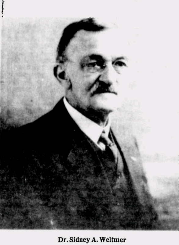 Picture of Prof. S. A. Weltmer in the 1920's Taken from the Nevada Daily Mail